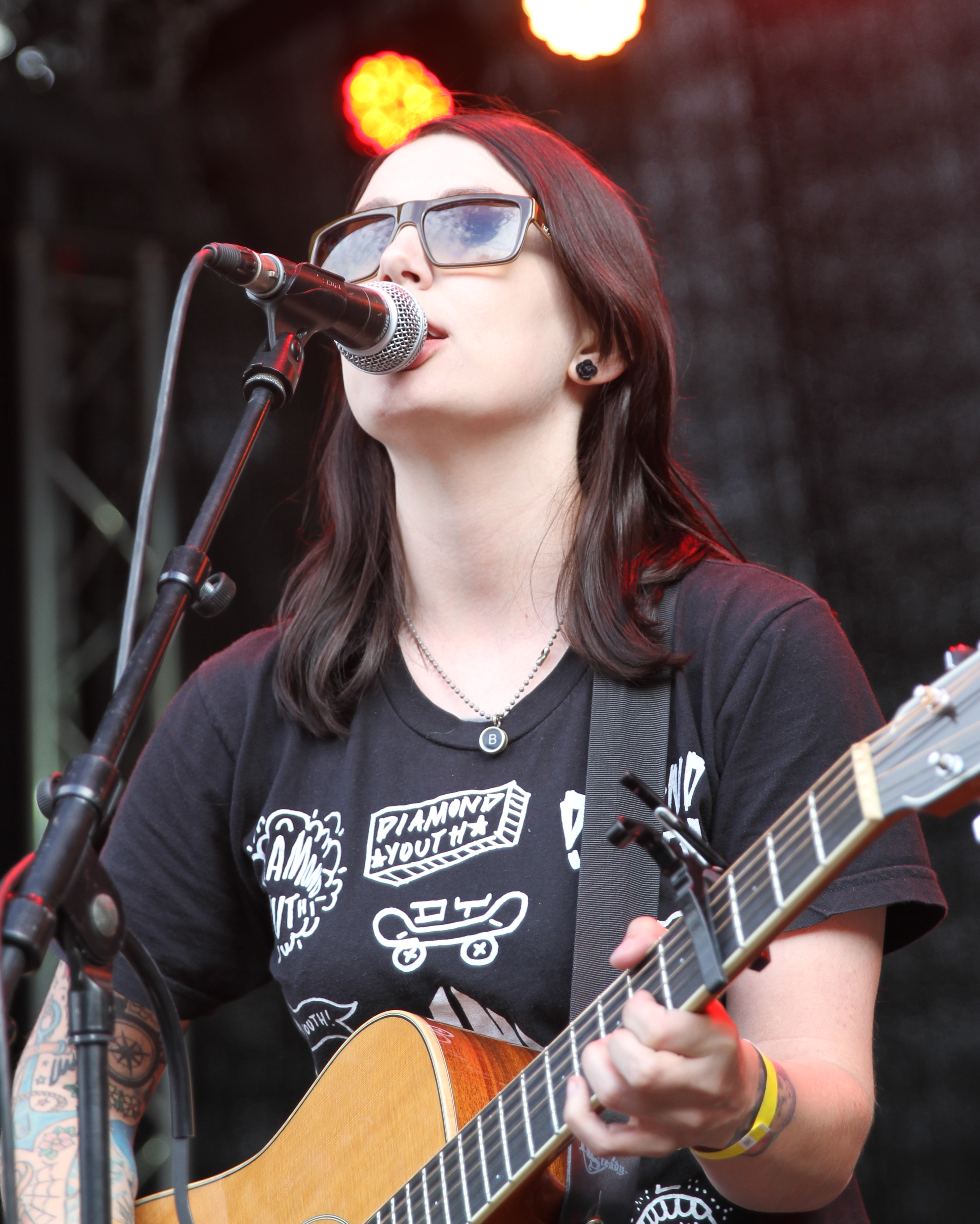 Billy The Kid auf dem Rock Camp 2014.